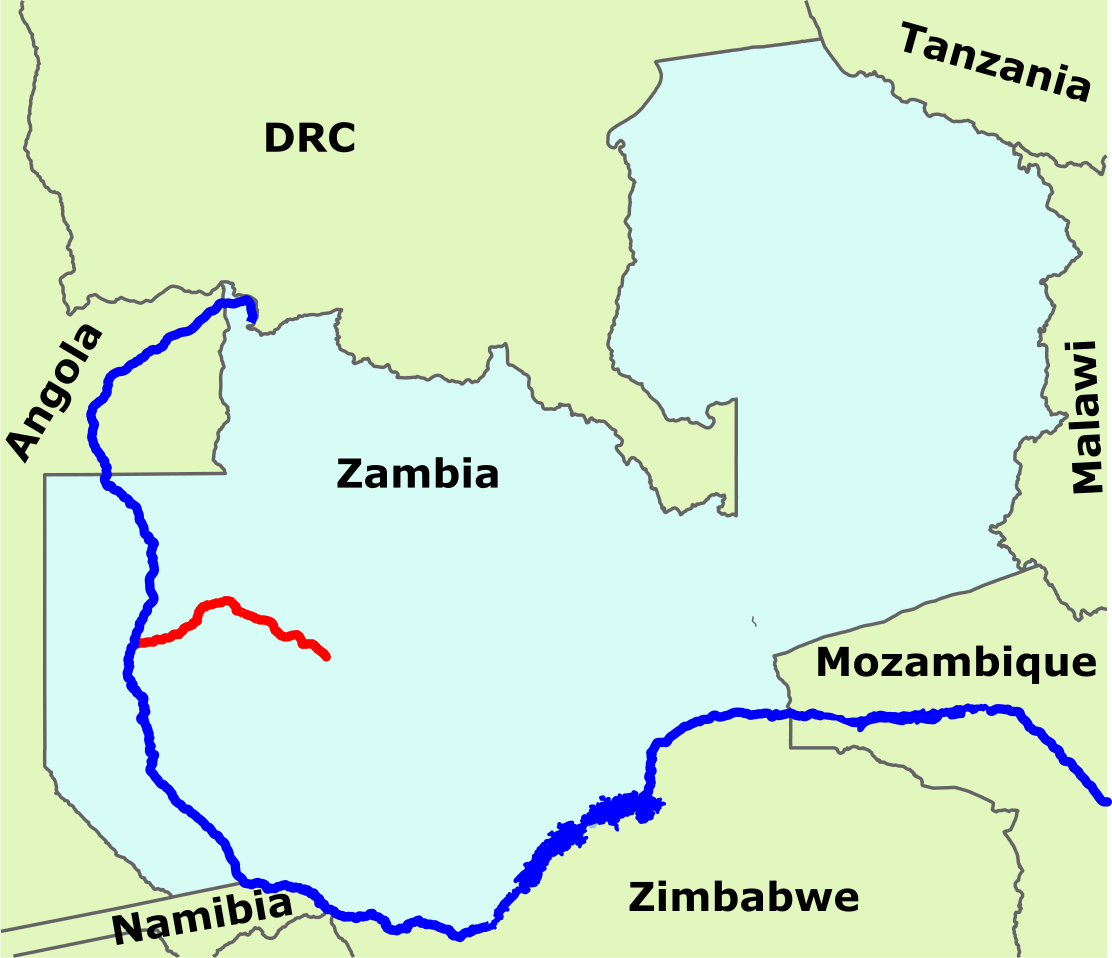 The Luena River (red) and part of the Zambezi River (blue)